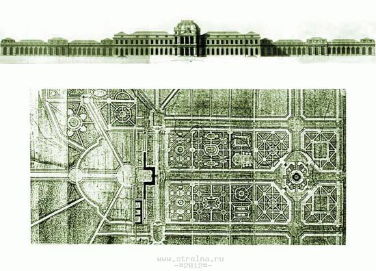 Jean Baptiste Alexandre Le Blond. The project of the palace and park ensemble in Strelin Manor. 1717